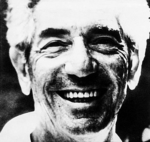 American actor John Marley from a poster for John Cassavetes's 1968 film Faces, featuring the cast.